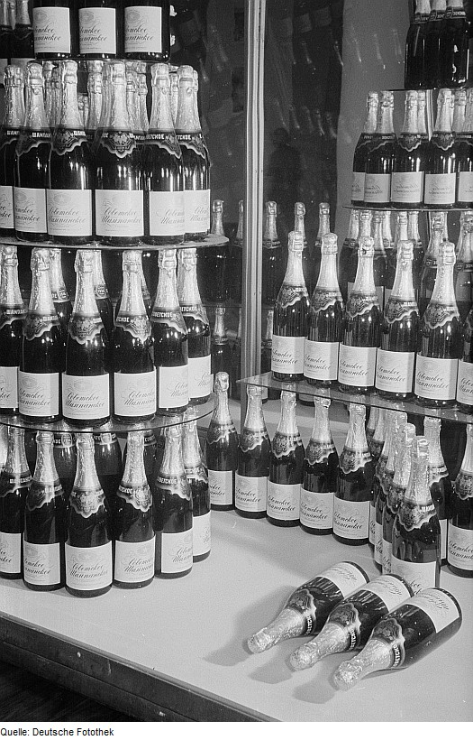 Original image description from the Deutsche Fotothek Ausgestellter sowjetische Schaumwein auf der Leipziger Herbstmesse 1954Champagne (drink) analog, produced in the Soviet Union (marked "The Soviet champagne" on the bottle)